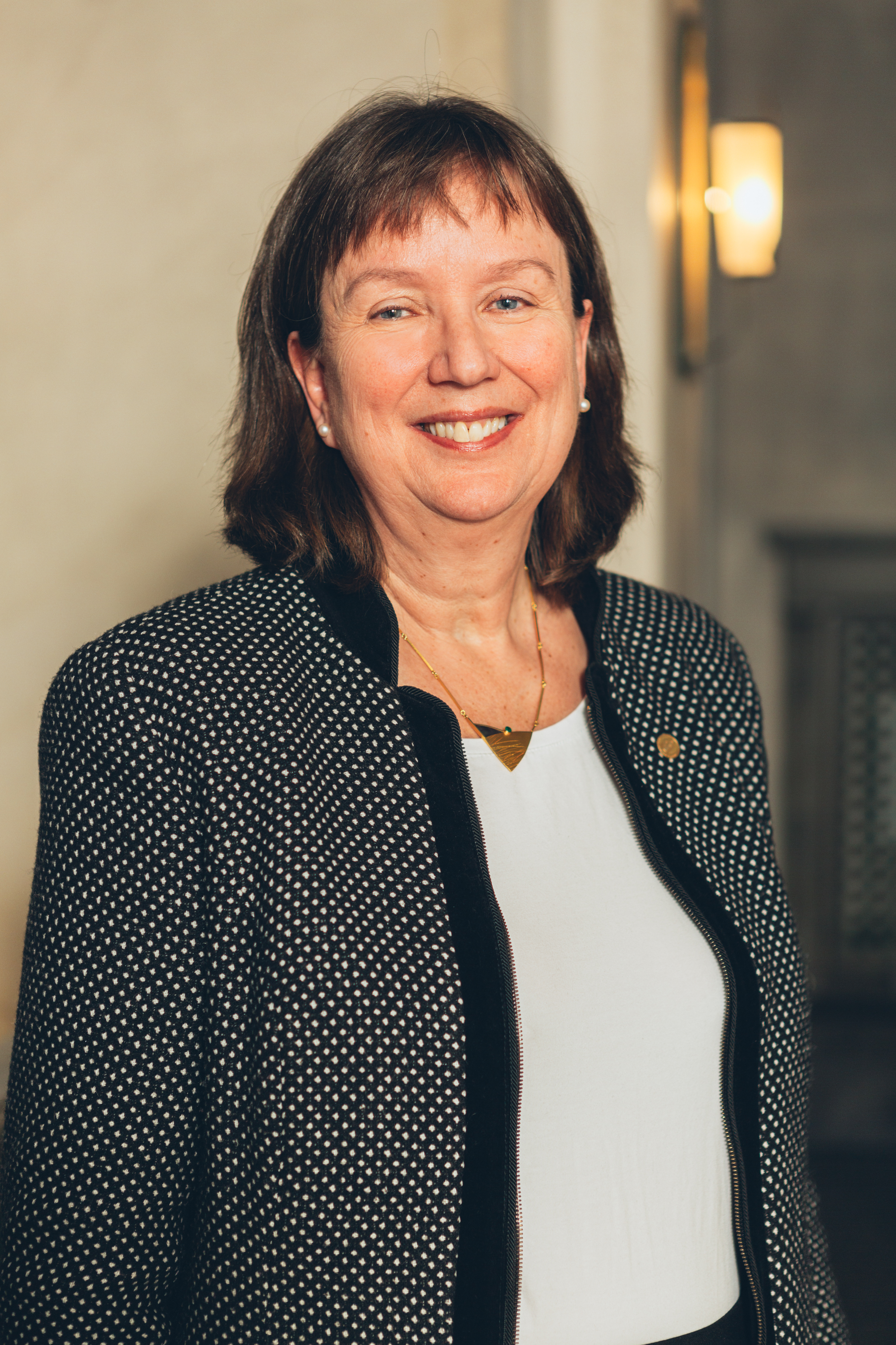 Profile picture of Sigbritt Karlsson